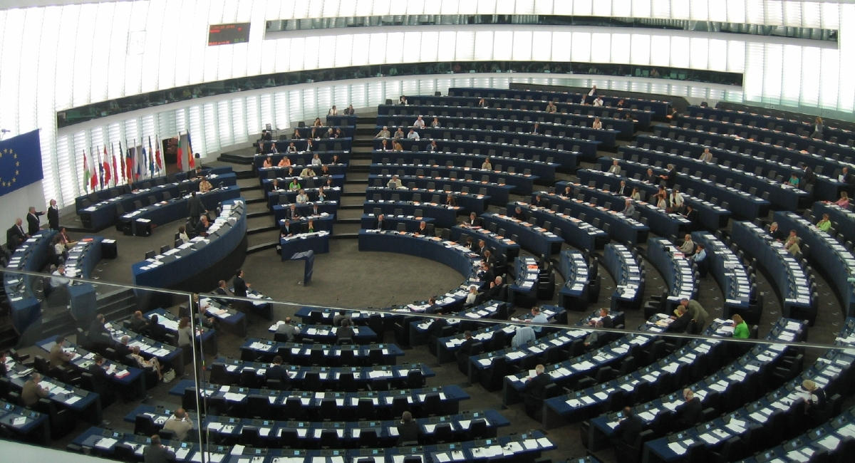 Hemicycle of the European Parliament in Strasbourg. Barroso giving speech, bottom left - front row. Borrell in the chair. Finnish Prime Minister as President-in-Office, front row opposite Barroso. Cropped version of Image:EP Strasbourg hemicycle l-gal.jpg